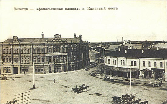 Vologda — Afanasievskaya Square and Kamenny Most.